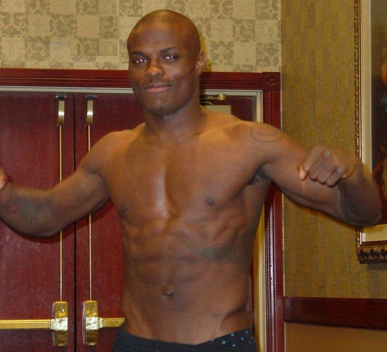 Photo of Peter Quillin taken at the Weigh-ins for the "Quillin/Brinkley" fight at the Silver Legacy Casino in Reno, Nevada